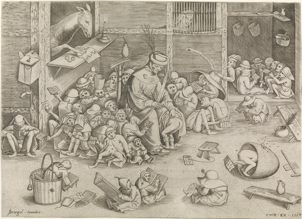 The Ass in School. 1556 engraving by Pieter van der Heyden after Pieter Bruegel the Elder, edited by Hieronymus Cock (collection of the Groeningemuseum, Bruges)